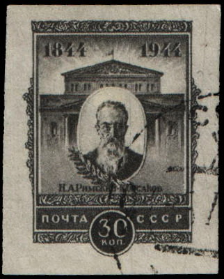 Stamp of the Soviet Union, Russian composer Nikolai Rimsky-Korsakov, 1944, CPA #915.